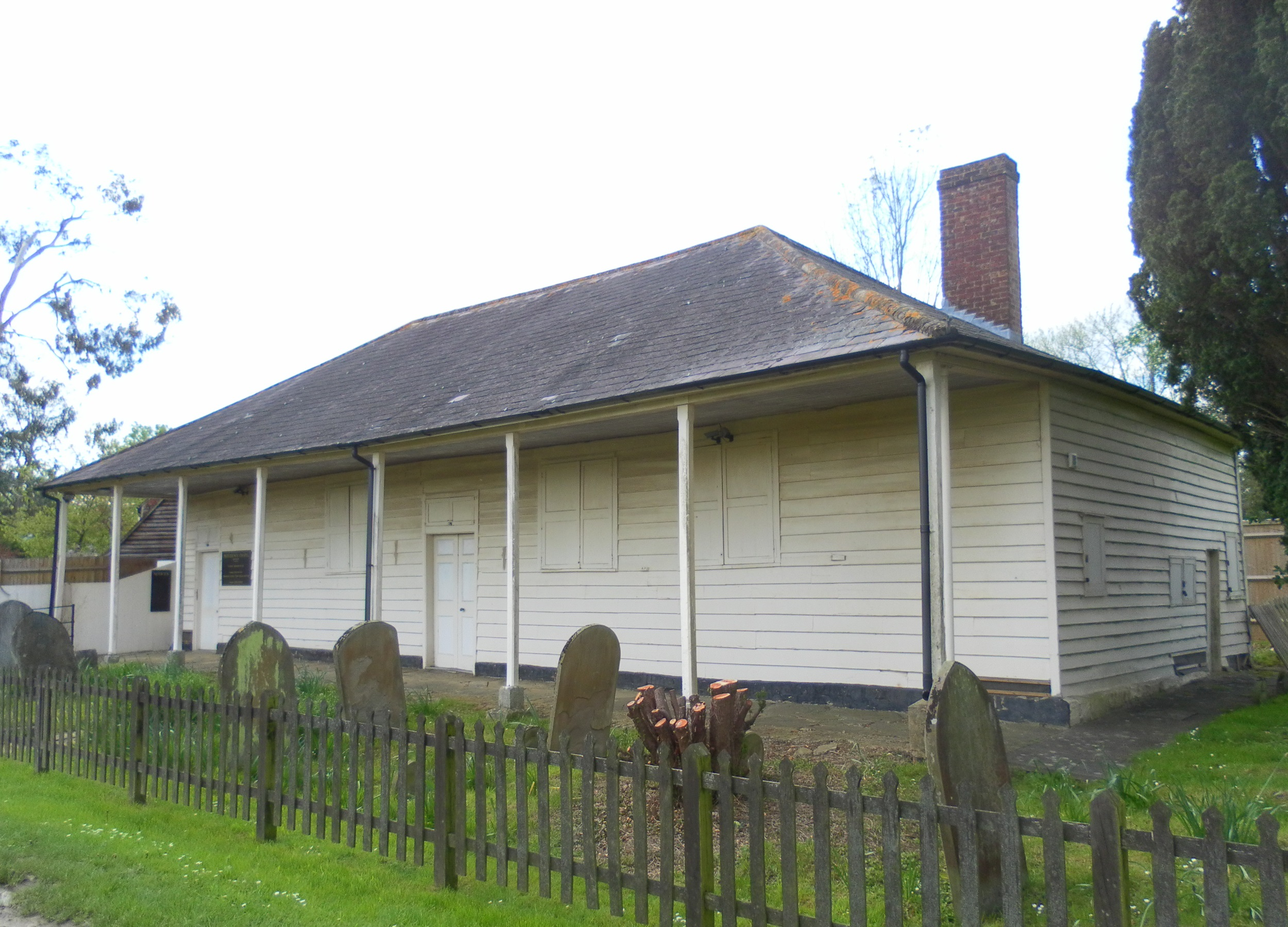 Former Providence Chapel, Chapel Road, Charlwood, Mole Valley District, Surrey, England. Originally a Napoleonic Wars-era barracks building in Horsham, Sussex. It was moved to this site in 1815 or 1816 and was used as a chapel by Independent Calvinists until the early 21st century. Its original name was Charlwood Union Chapel. Listed at Grade II* by English Heritage (NHLE Code 1277978)